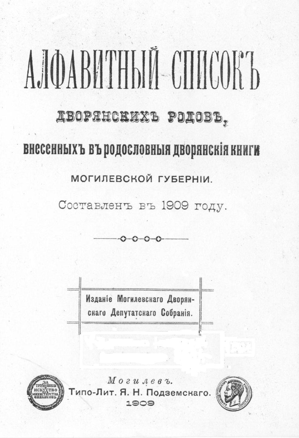 Rodoslovnaya kniga Mogilev. gub. 1909